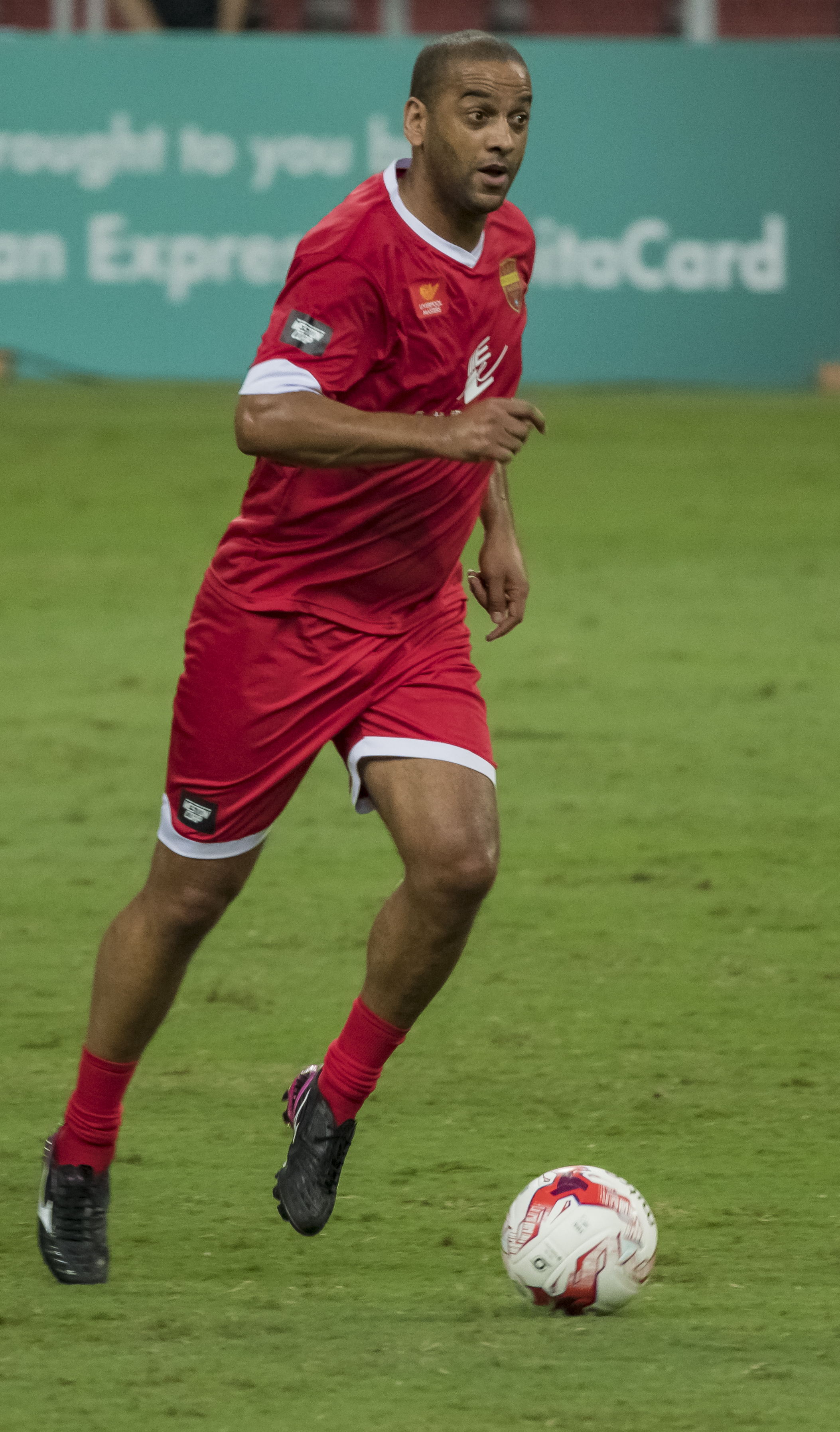 phil babb liverpool masters singapore national stadium 2017